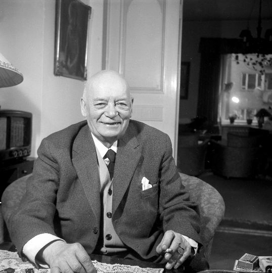 Photograph of the Finnish actor Aku Korhonen (1892–1960).